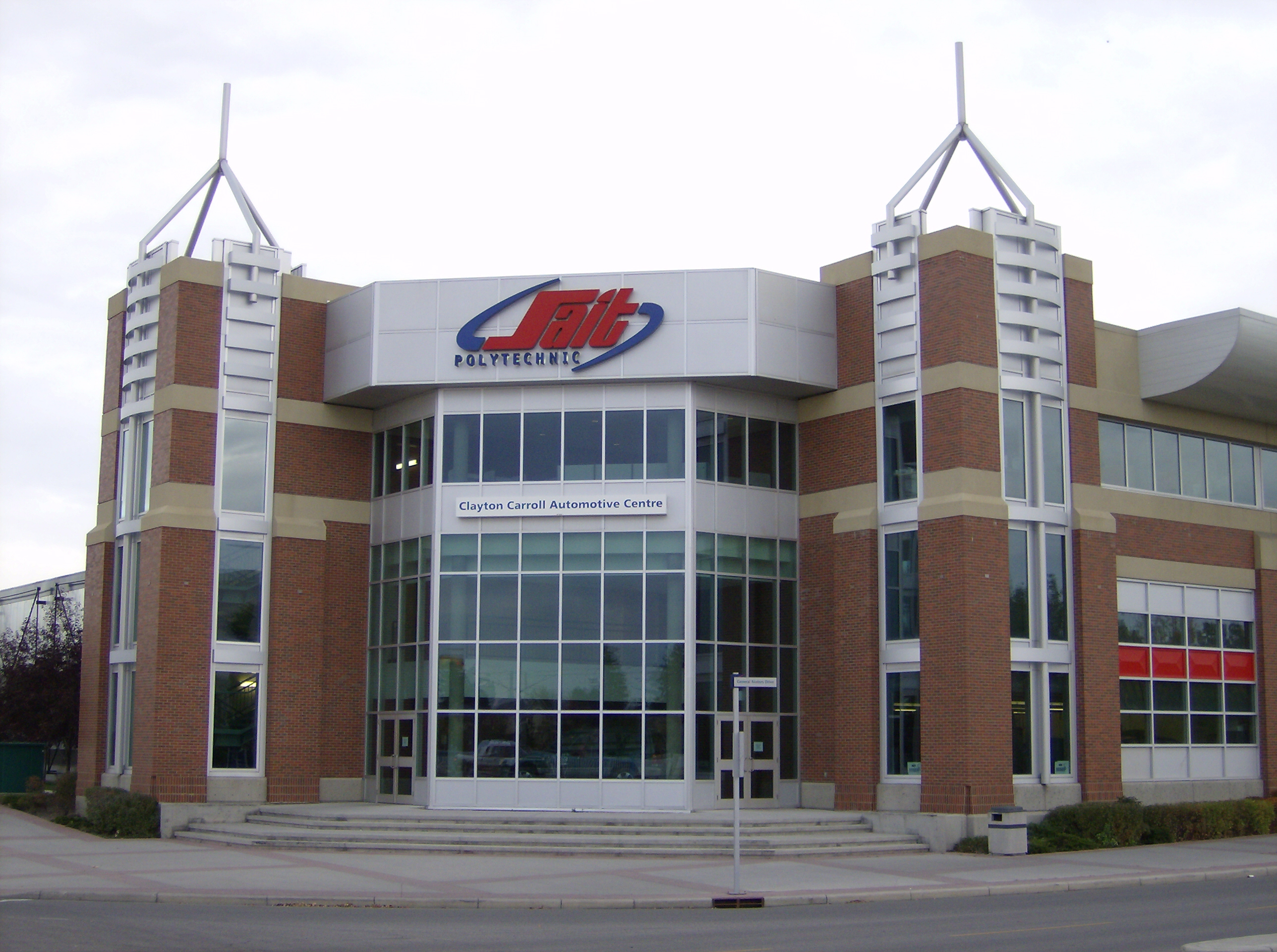 The Clayton Carroll Automotive Centre of the Southern Alberta Institute of Technology in Calgary, Alberta, Canada.